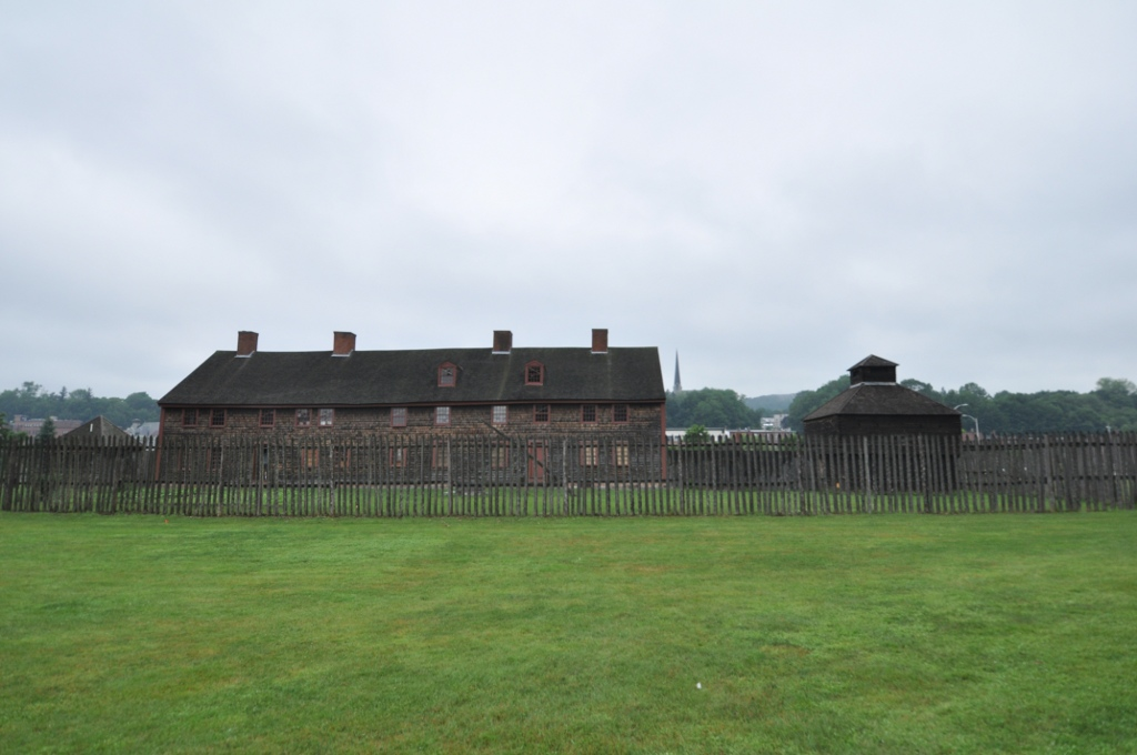 Fort Western, Augusta, Maine. View of stockade and fort buildings.